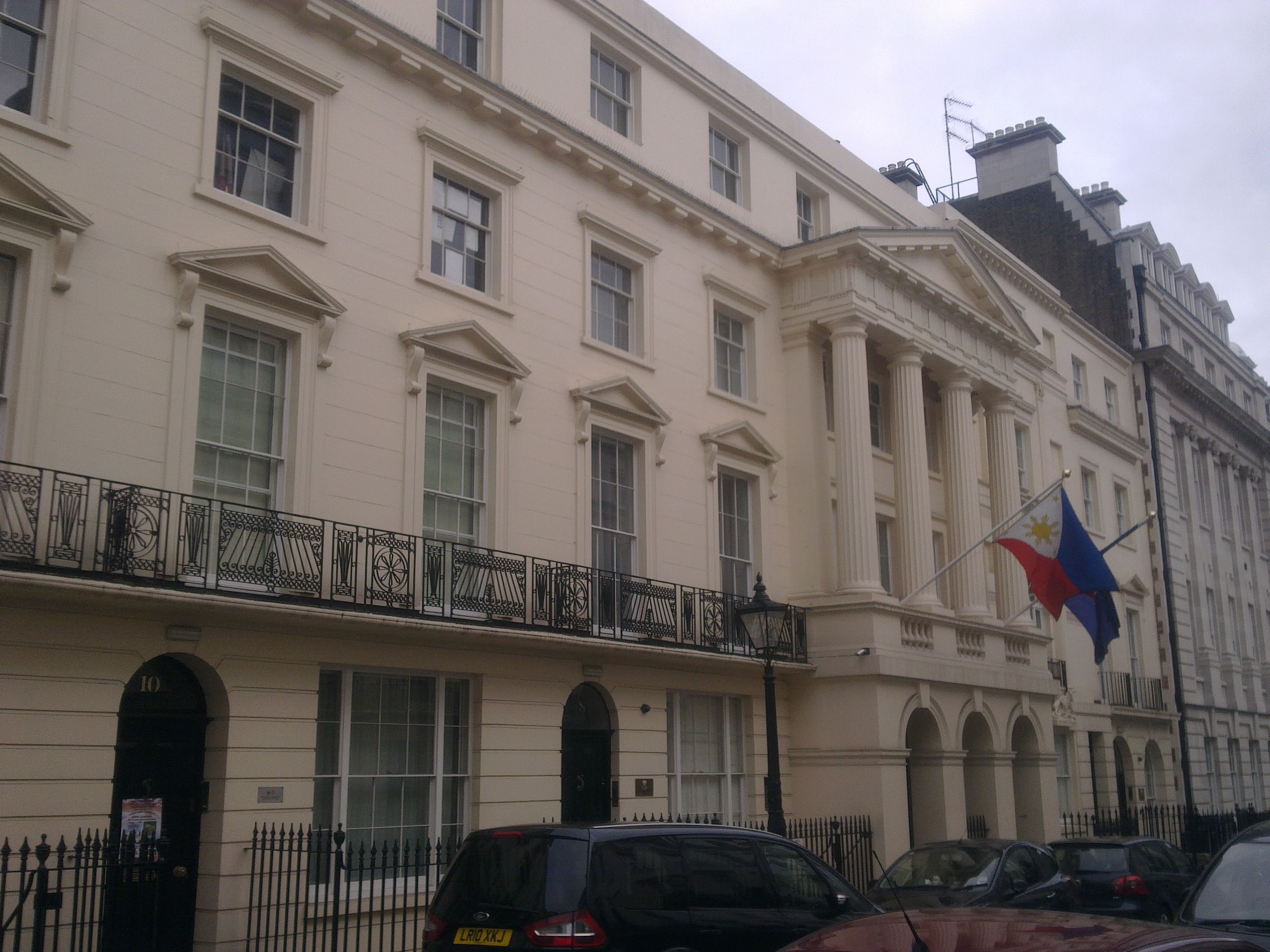 Embassy of the Philippines in London 3